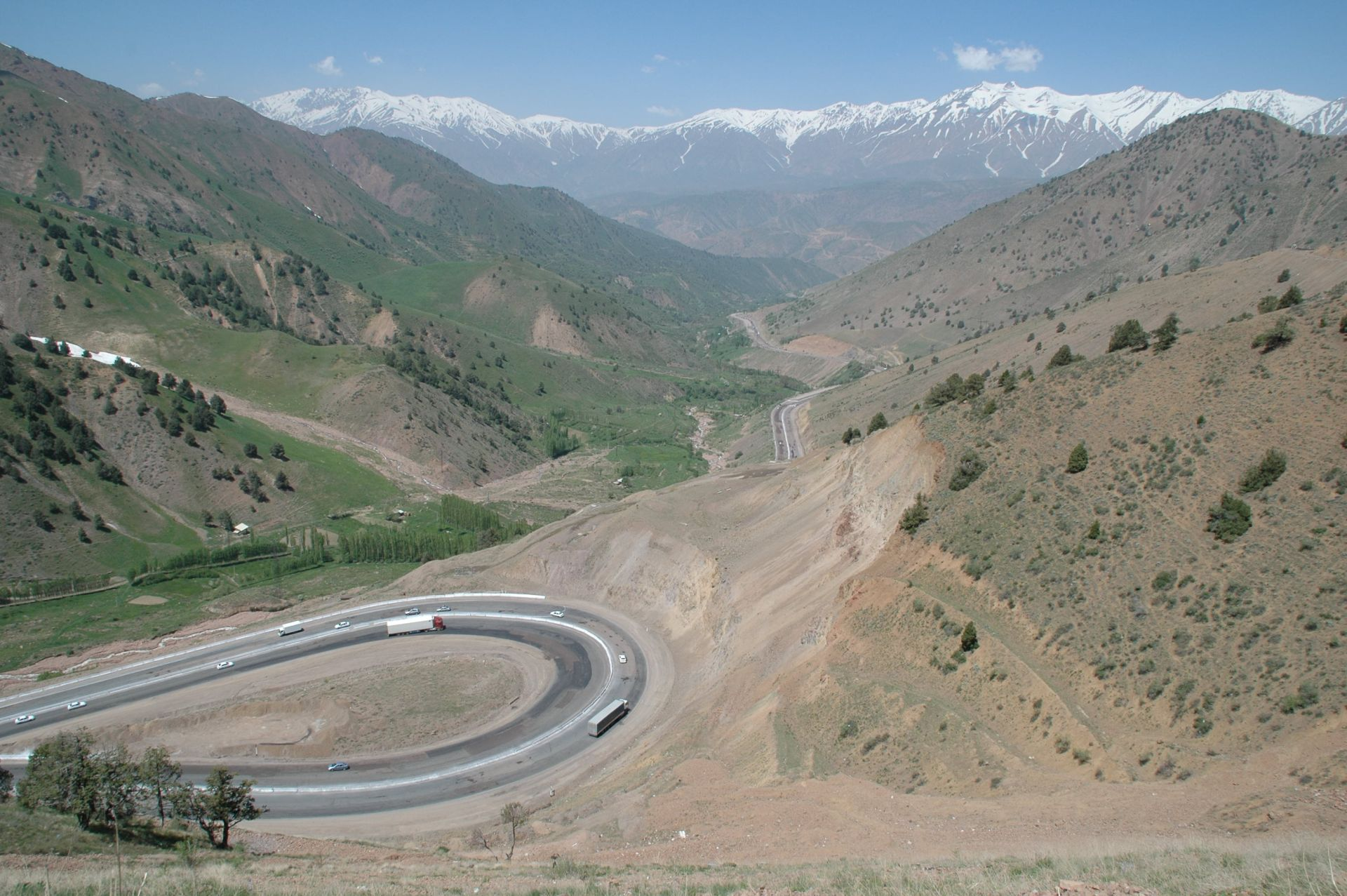 Kamchik Pass in Uzbekistan connecting the Fergana Valley with the rest of the country